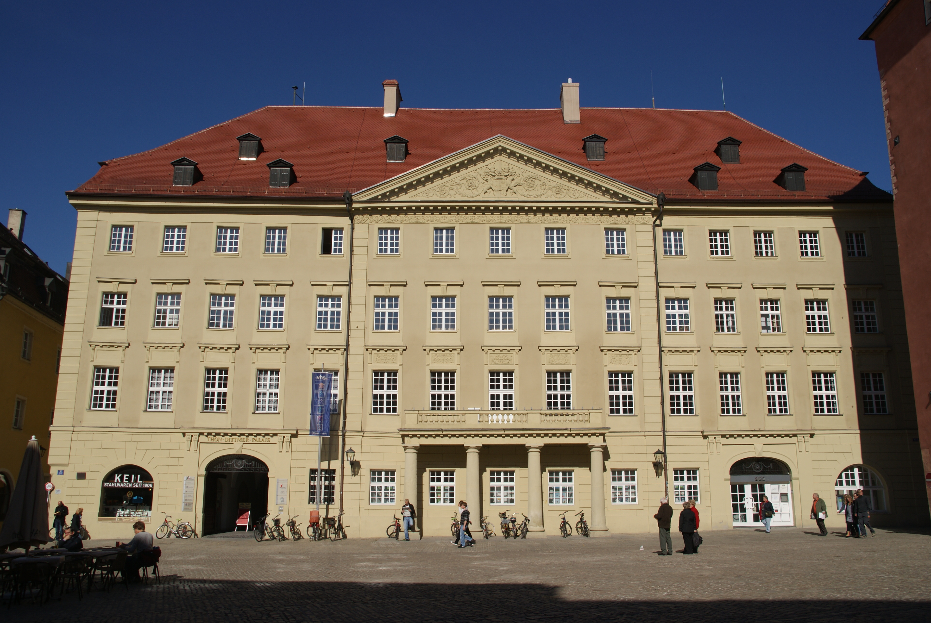 Thon-Dittmer-Palais in Regensburg